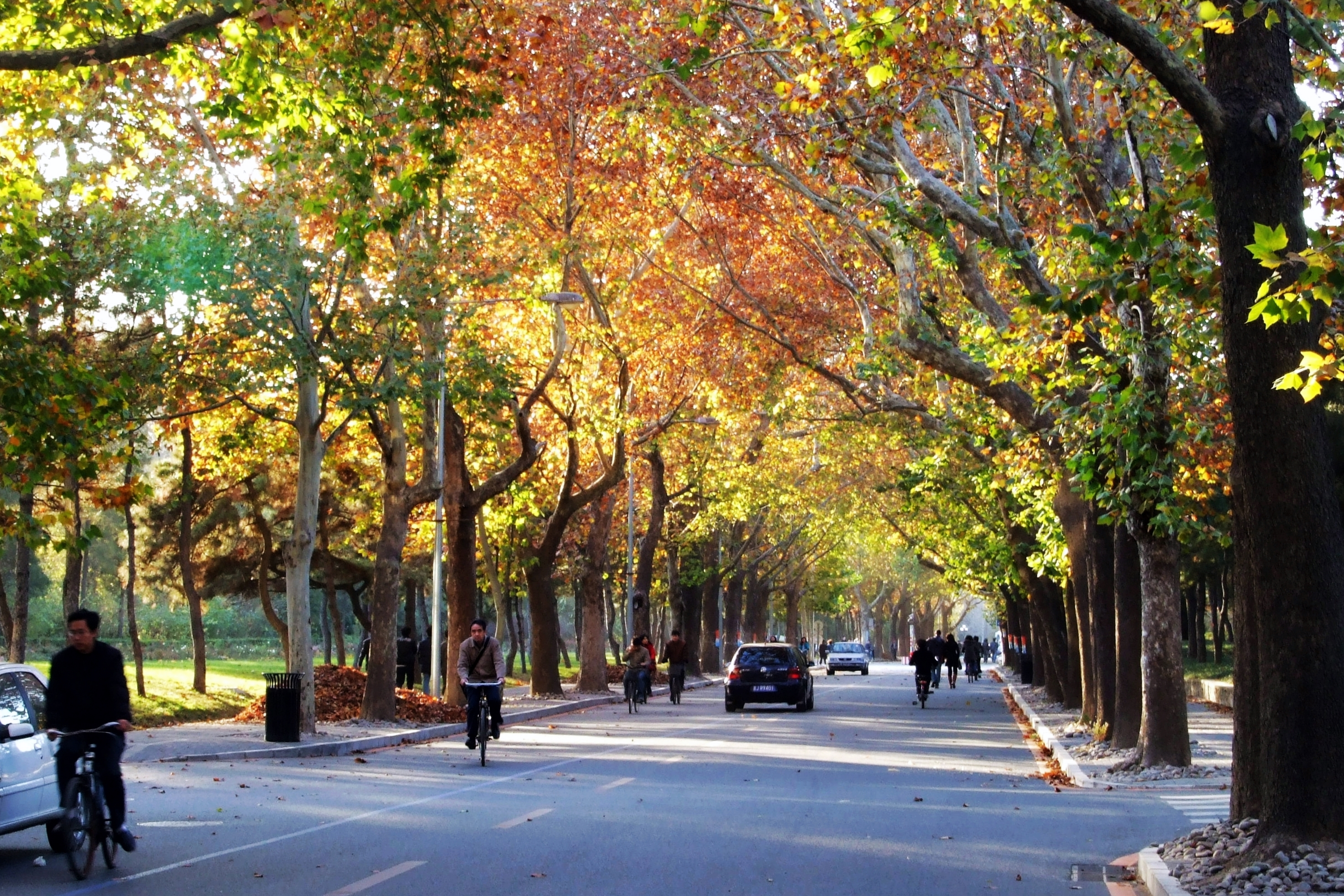 Avenue in Tsinghua University